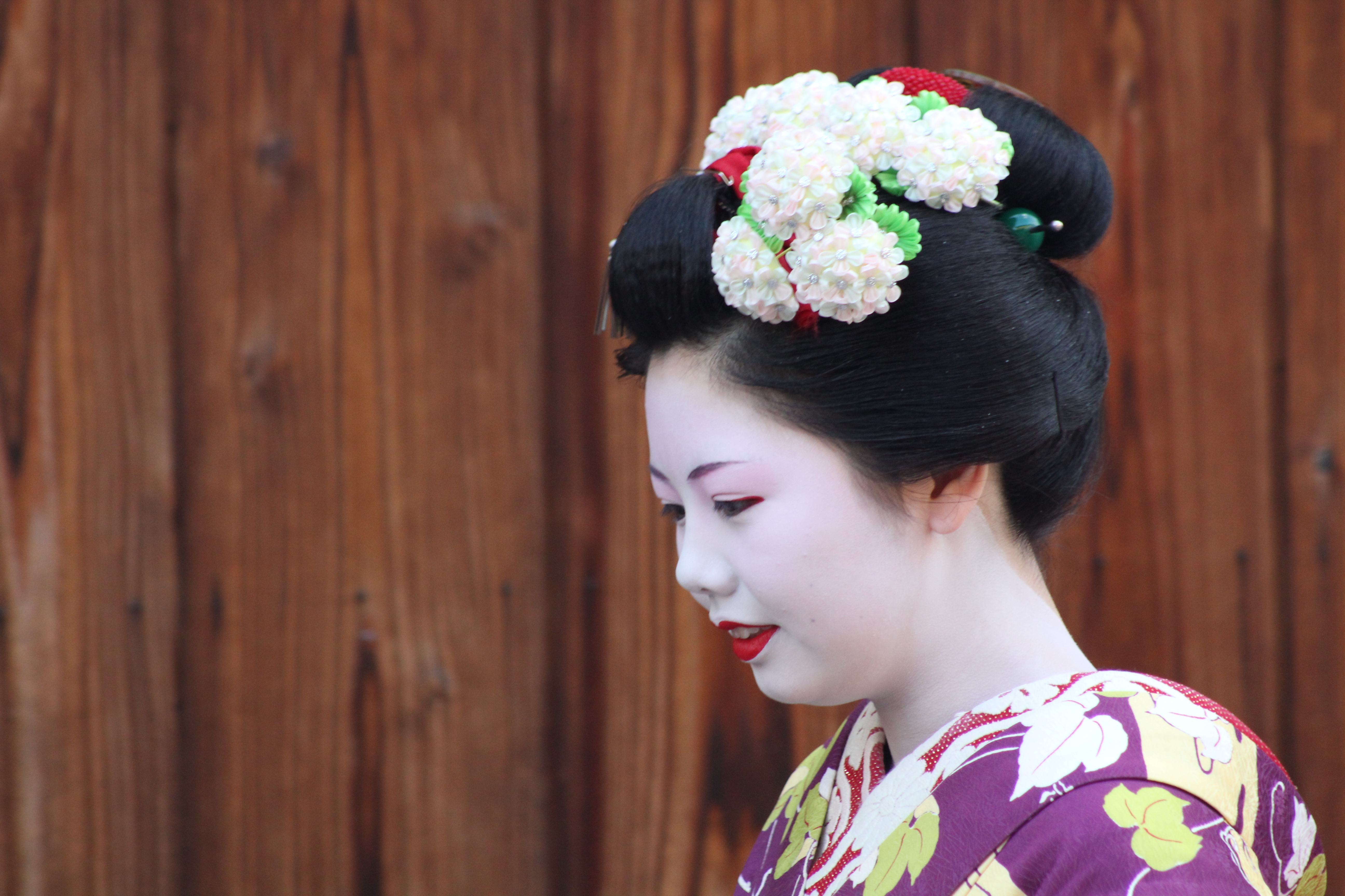 Maiko Mamefusa wearing a June kanzashi